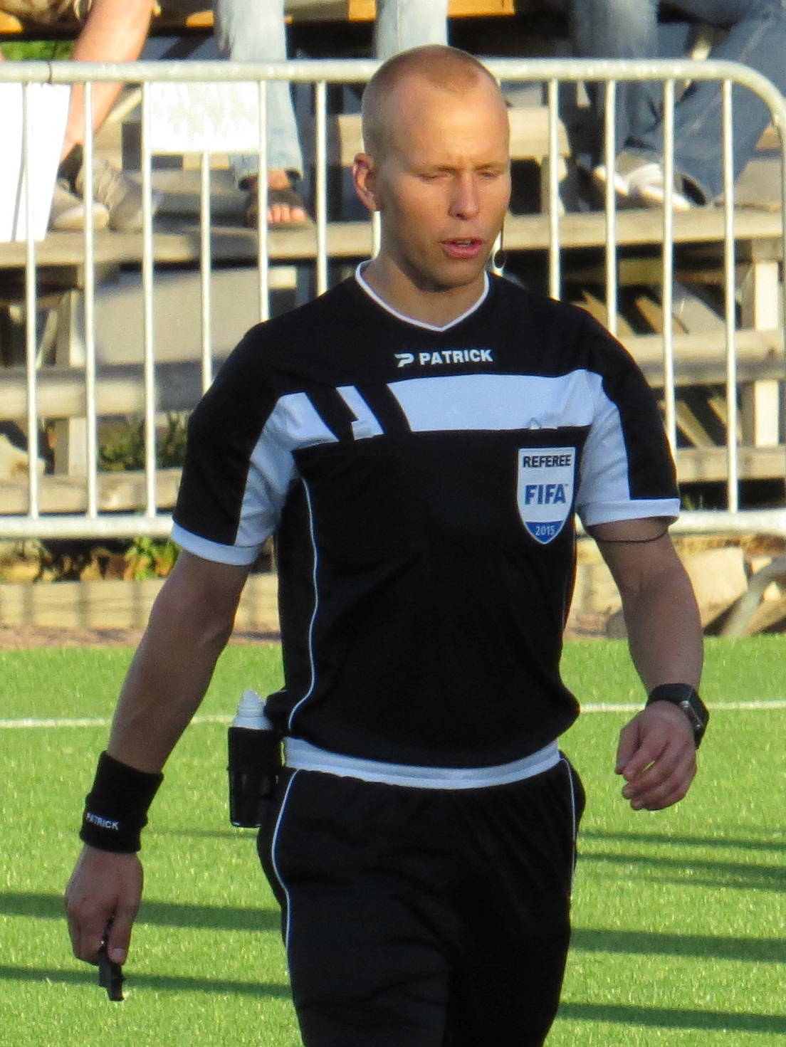 Antti Munukka, suomalainen jalkapallotuomari.